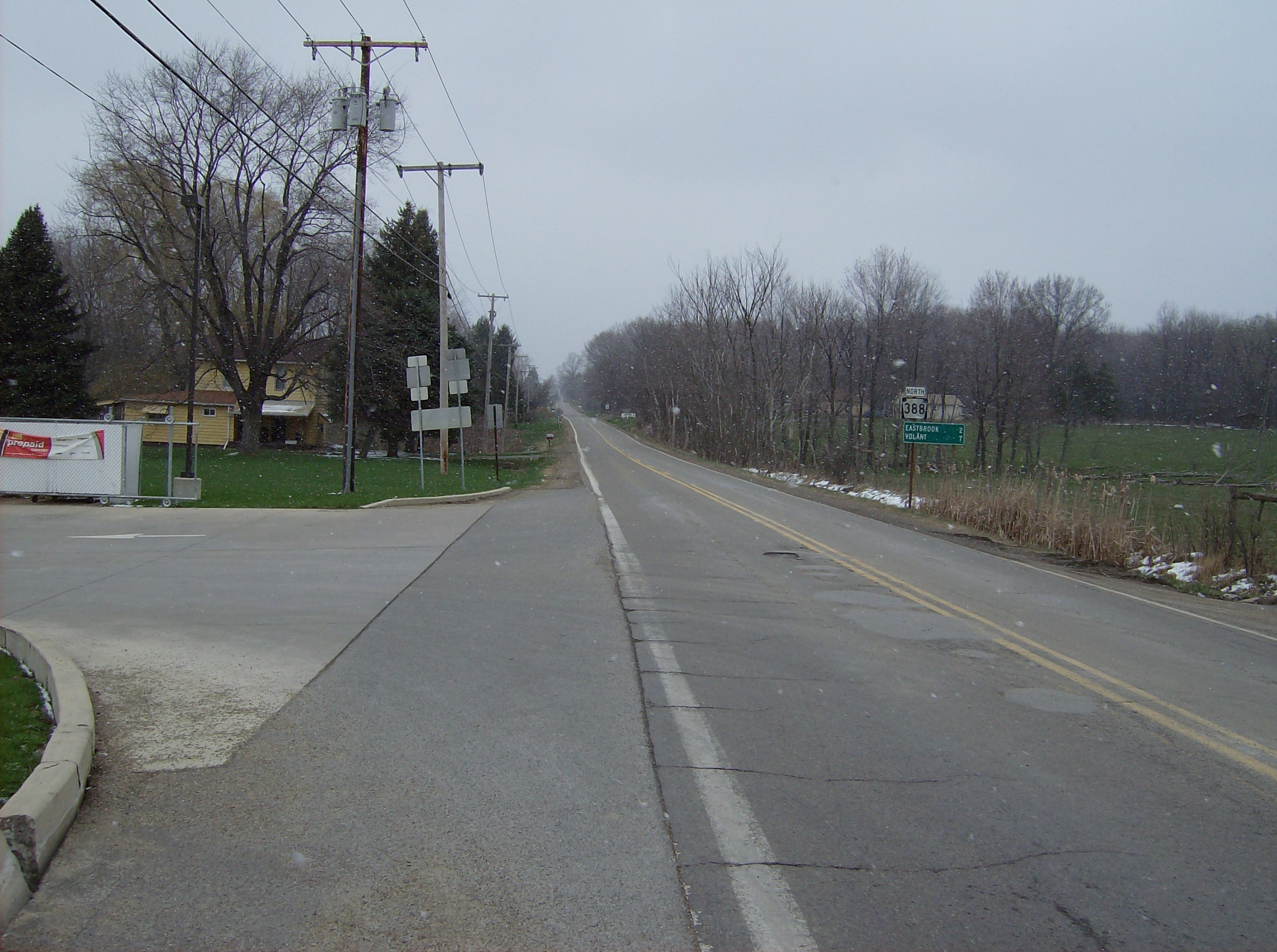 View northward along Pennsylvania Route 388, a slight distance north of its intersection with Pennsylvania Route 108 in Hickory Township, Lawrence County, Pennsylvania, United States.